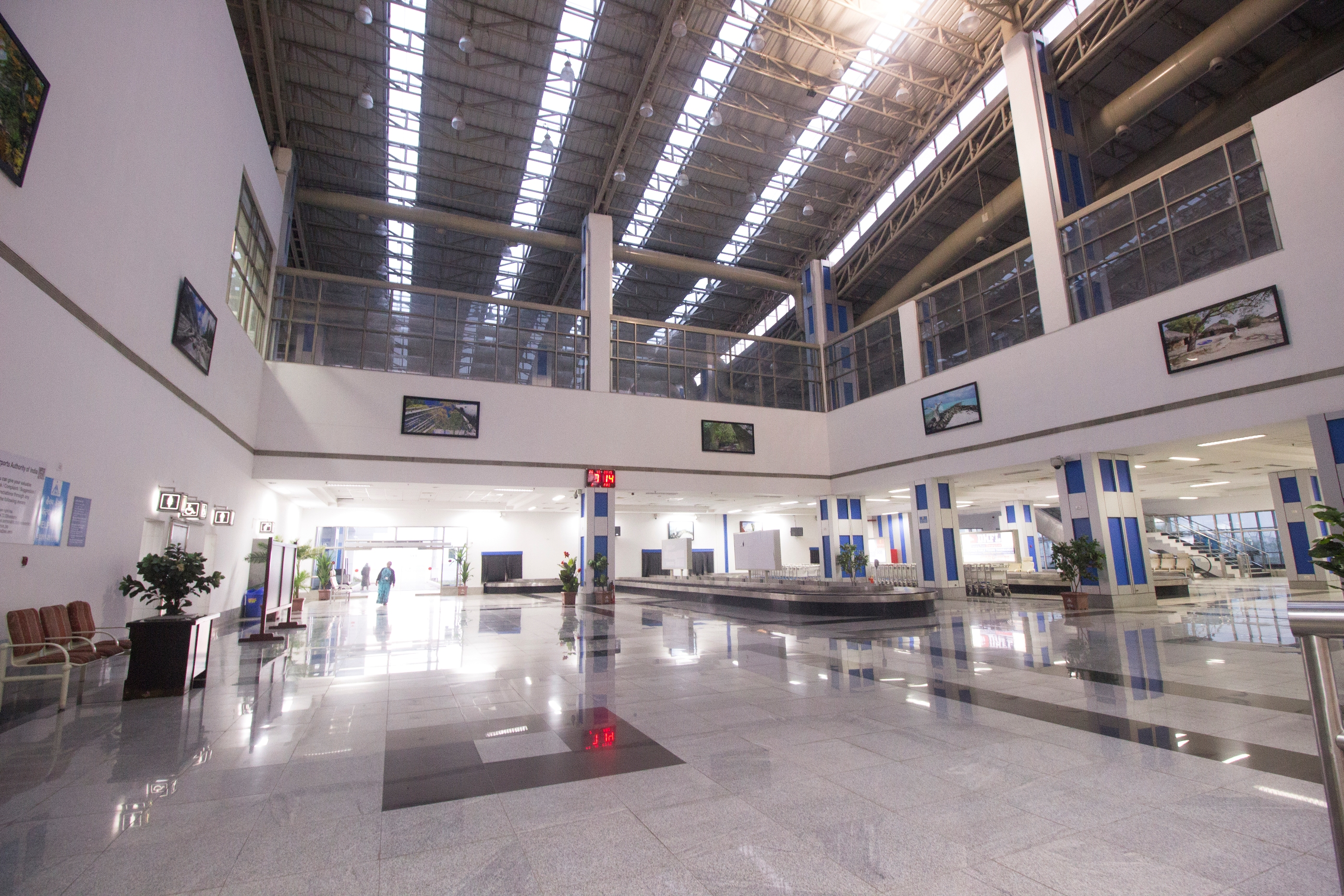 Surat Airport arrival area